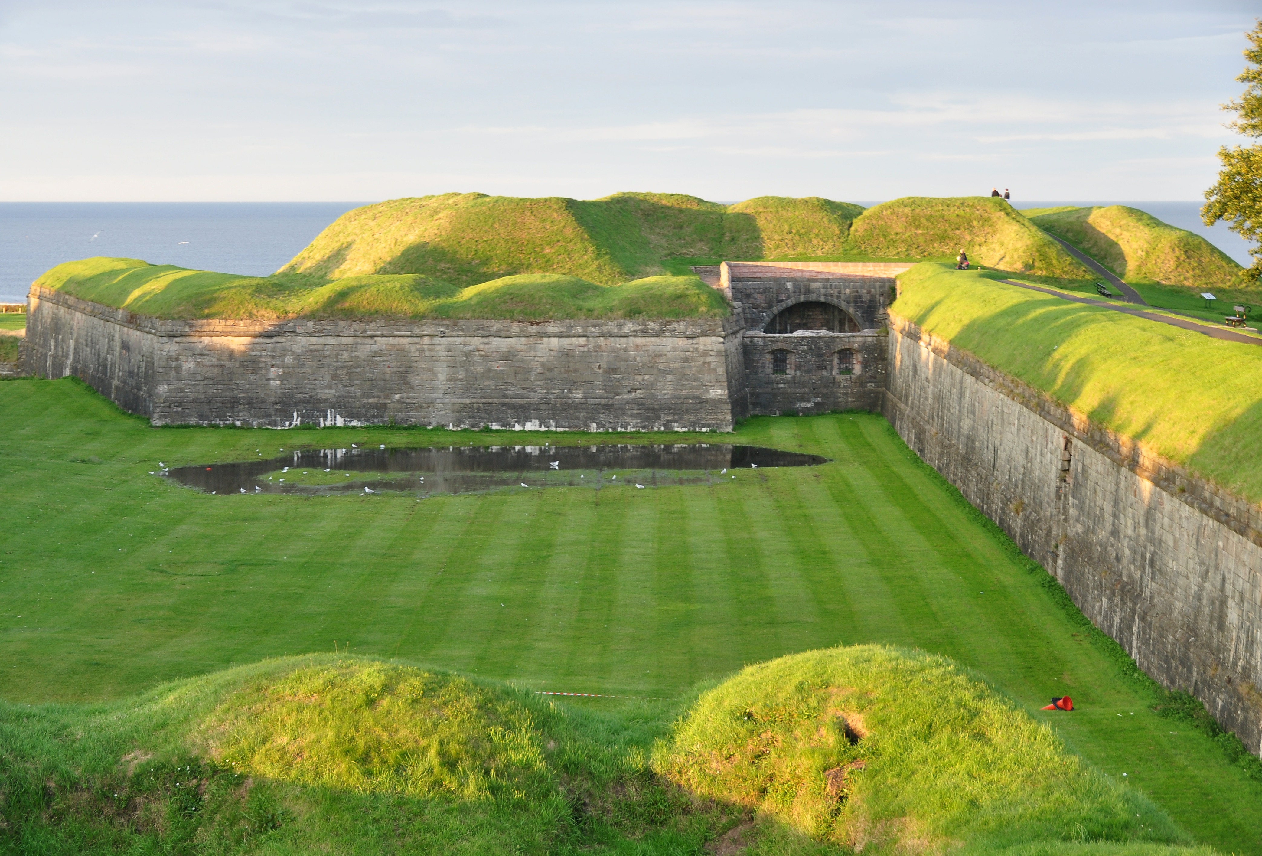 The ramparts of Berwick-upon-Tweed's town wall, with one of the eastern bastions above the low ground to the east of the town.